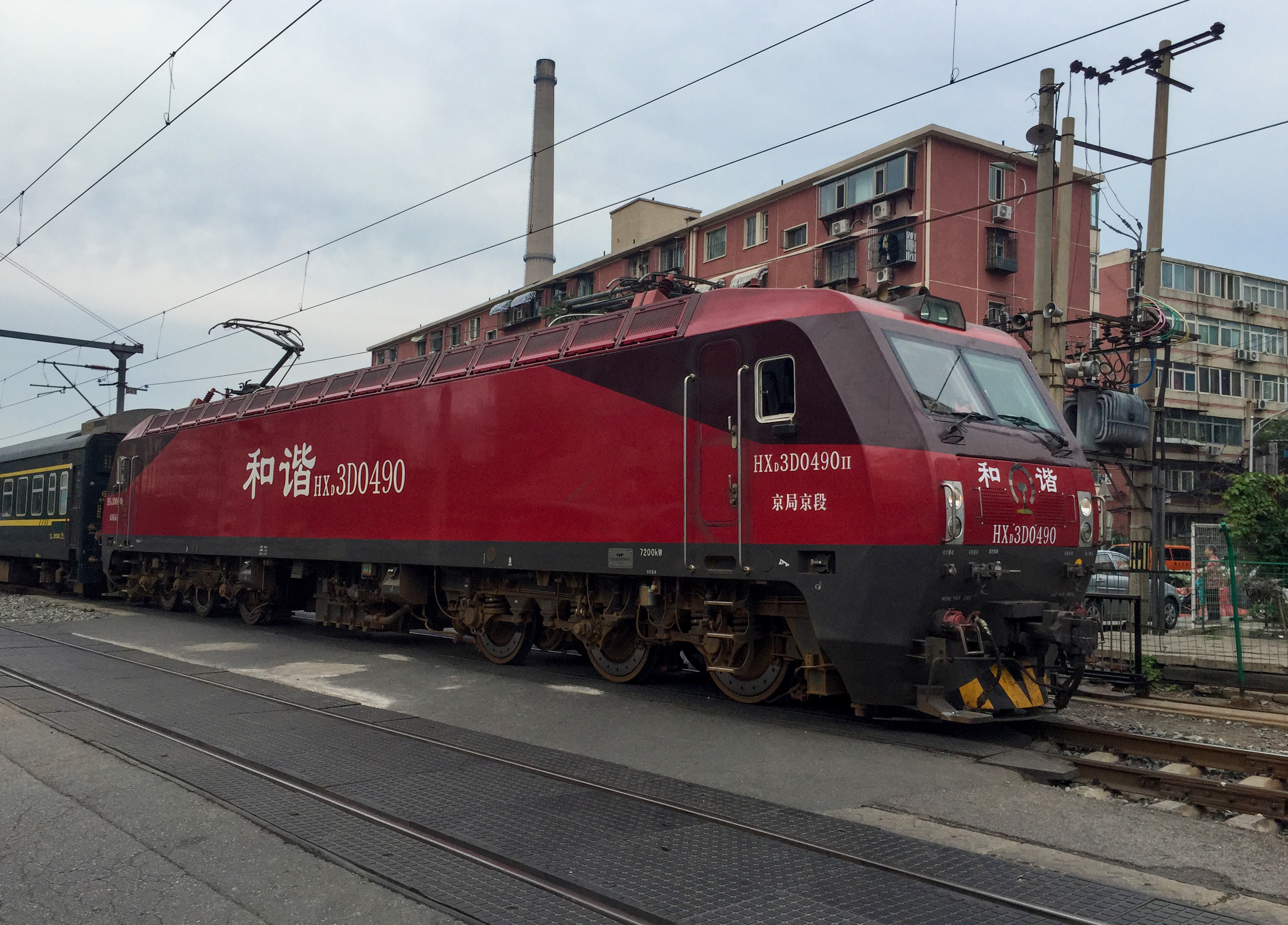 K571 to Xiamen via Longyan. This one also switched to 3D, along with K106 who carried a huge traffic today, some of which are tourist groups to Hong Kong.